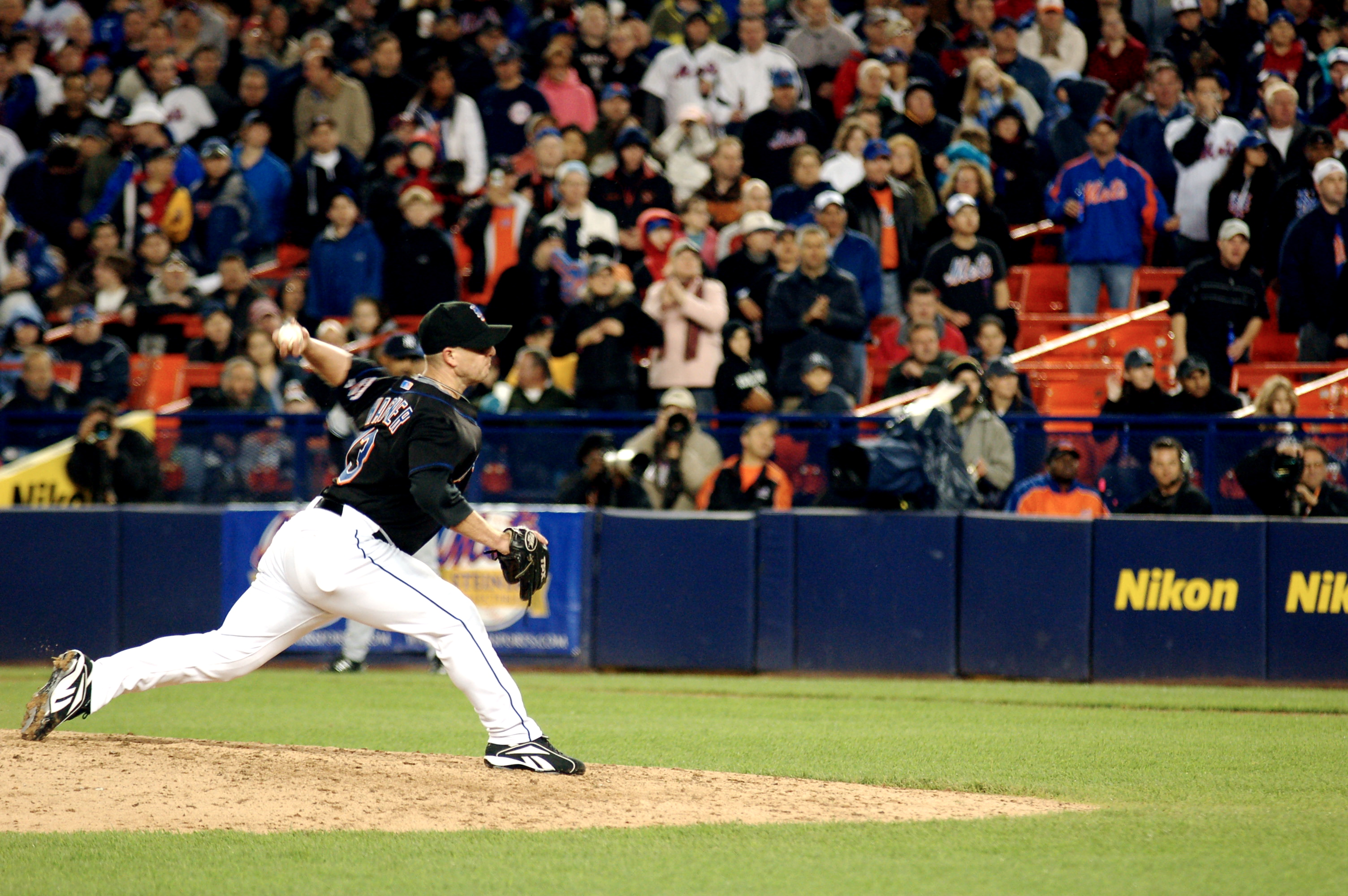 New York Mets pitcher Billy Wagner pitching